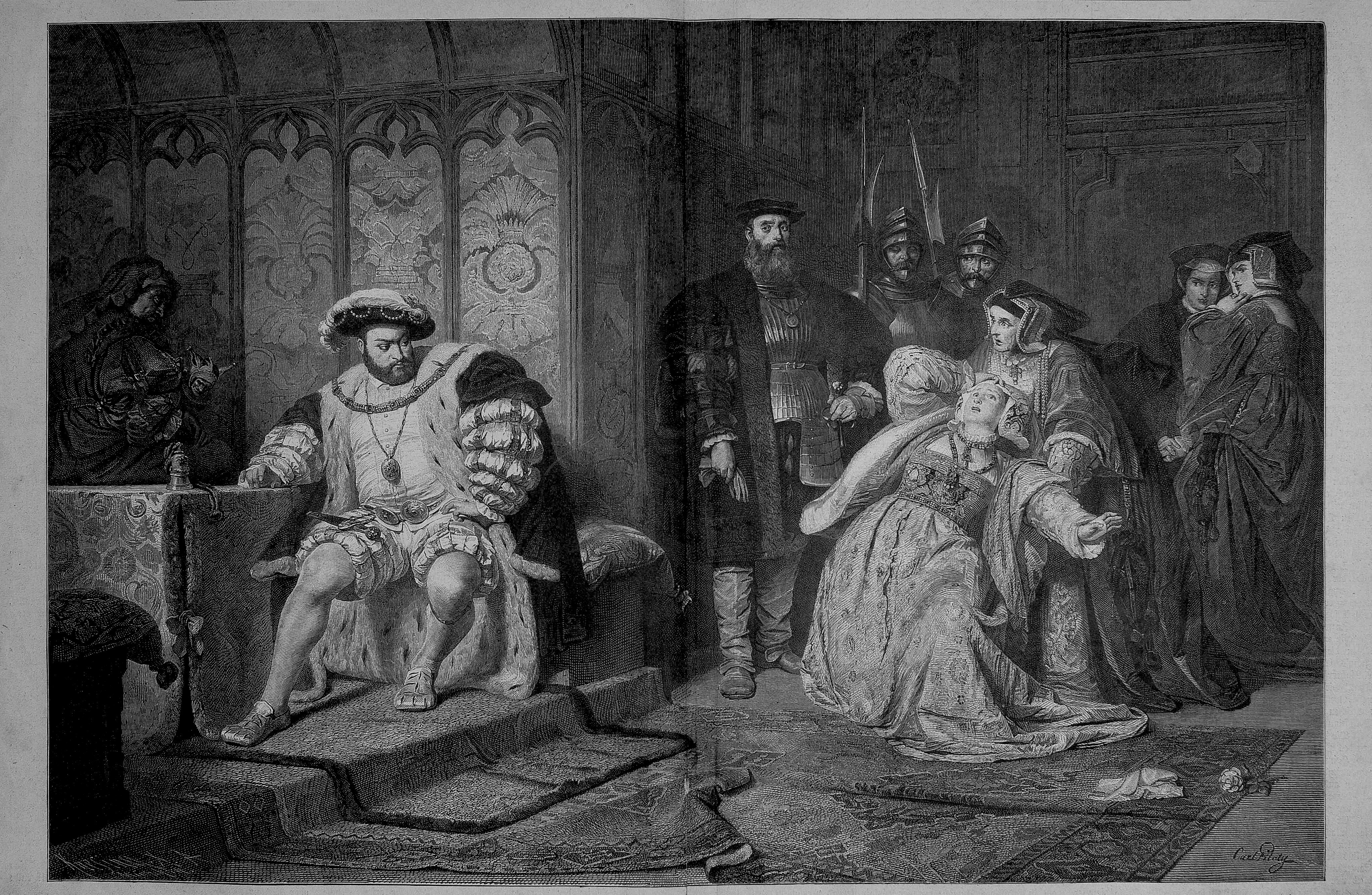 caption: "Heinrich der Achte von England verstößt Anna Boleyn. Oelgemälde von Karl Piloty. Nach einem Kupferstiche im Verlage von J. Aumüller in München."